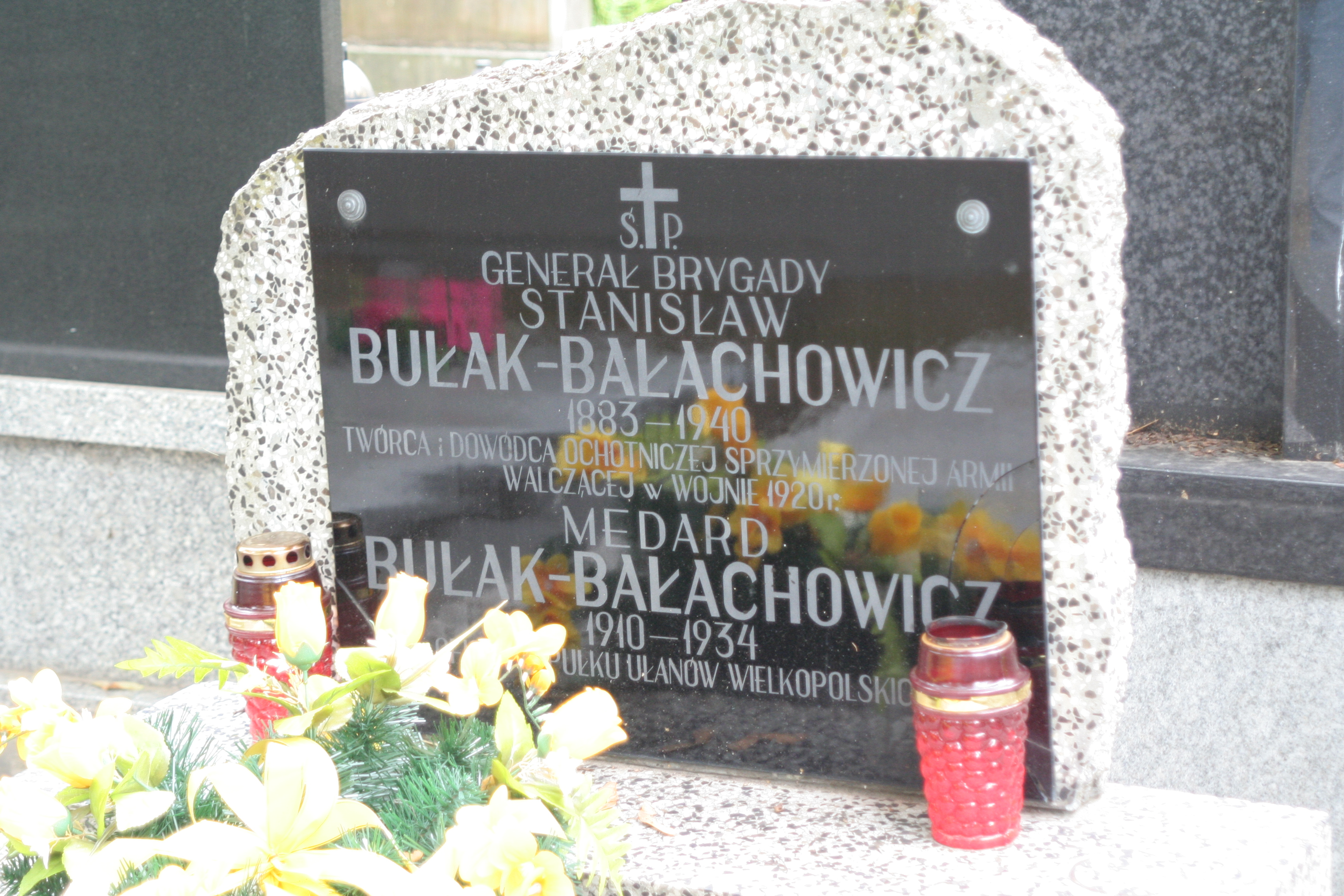 General Stanisław Bułak-Bałachowicz's tombstone at Powązki Military Cemetery.